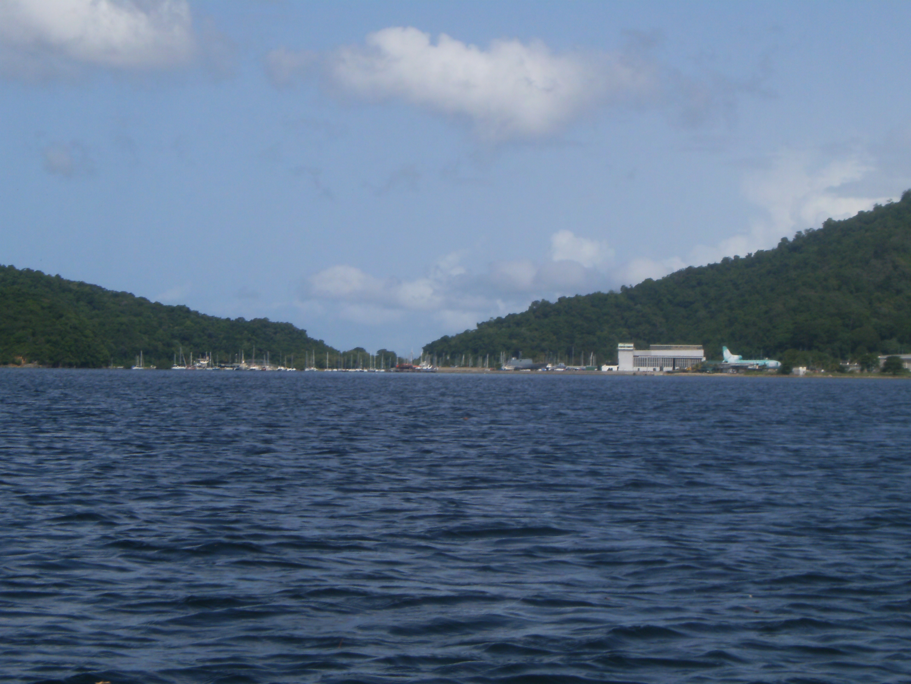 View of Hart's Cut, Chaguaramas, Trinidad and Tobago